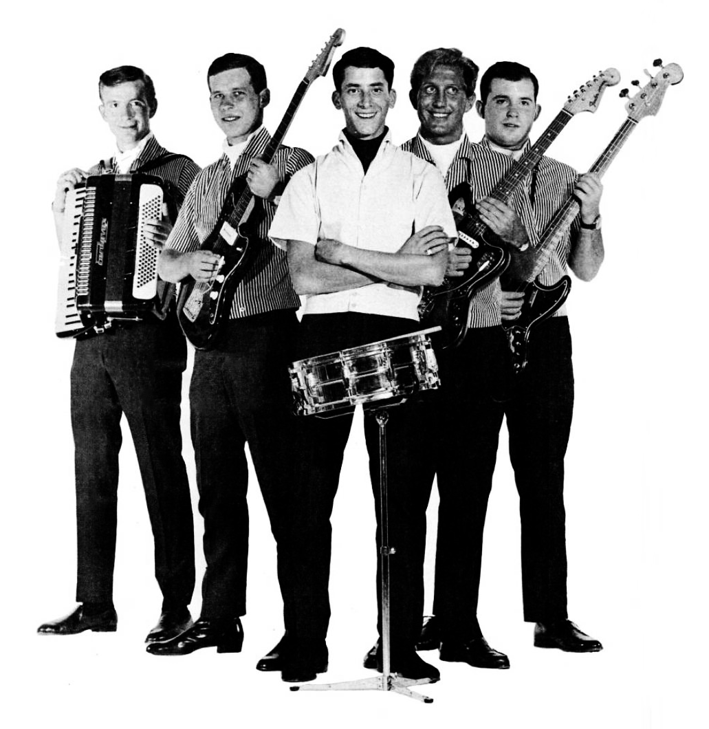 Trade ad for Gary Lewis & the Playboys' single "This Diamond Ring".To better adapt it to his respective Wikipedia article, the ad was cropped and cleaned in a graphics editing program. The original can be viewed at the source below.